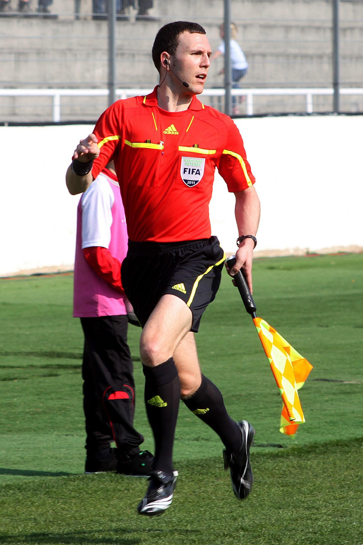 Raffael Zeder, Referee of Switzerland